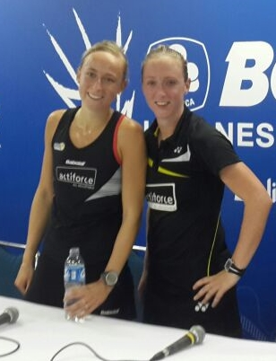 Selena Piek (left) and Eefje Muskens during the press conference after Indonesia Open 2016 Quarterfinals